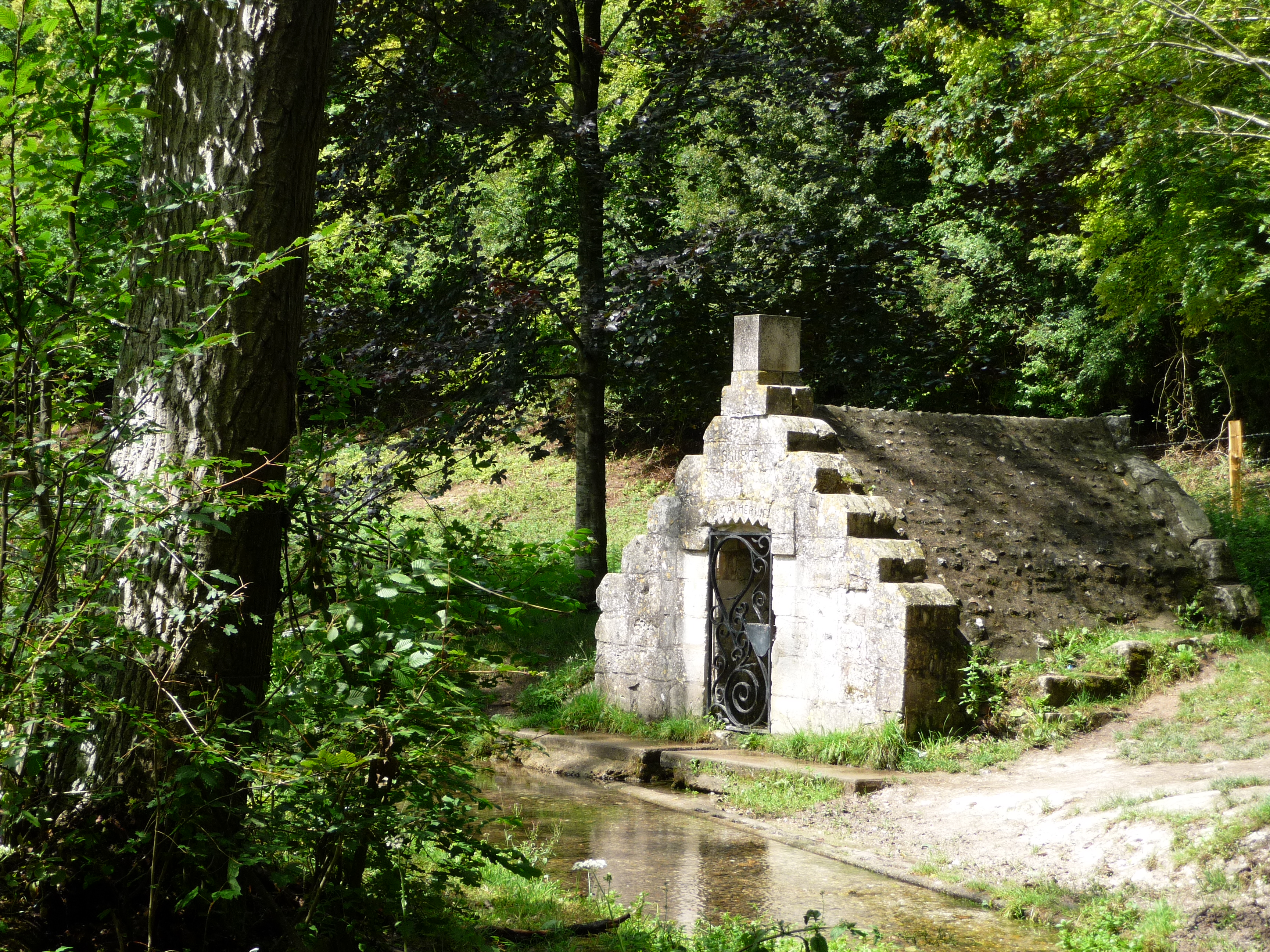 Fontaine Ste Catherine